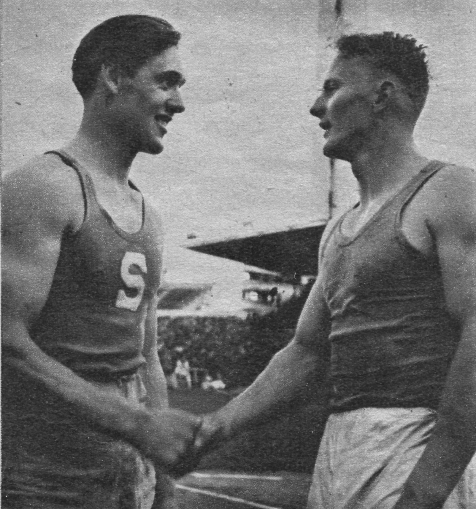 Javelin throwers Per-Arne Berglund and Toivo Hyytiäinen.